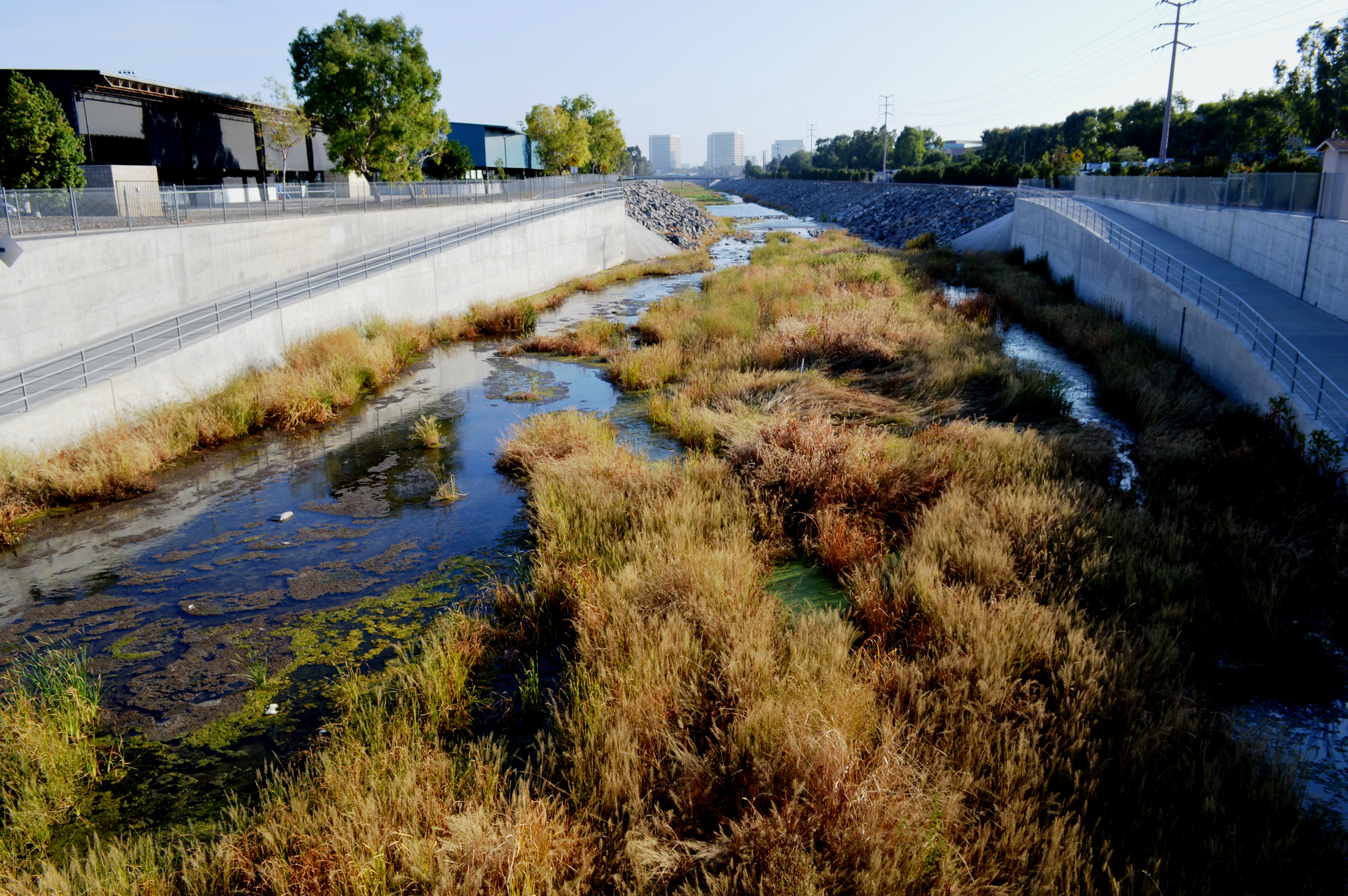 Peters Canyon Wash, as seen from the Barranca Parkway bridge looking downstream (south-westward). If you zoom in, you can see where it joins San Diego Creek coming from left and then running below the Alton Parkway bridge. The tall buildings at the far end are located by Interstate 405 at Jamboree Road.